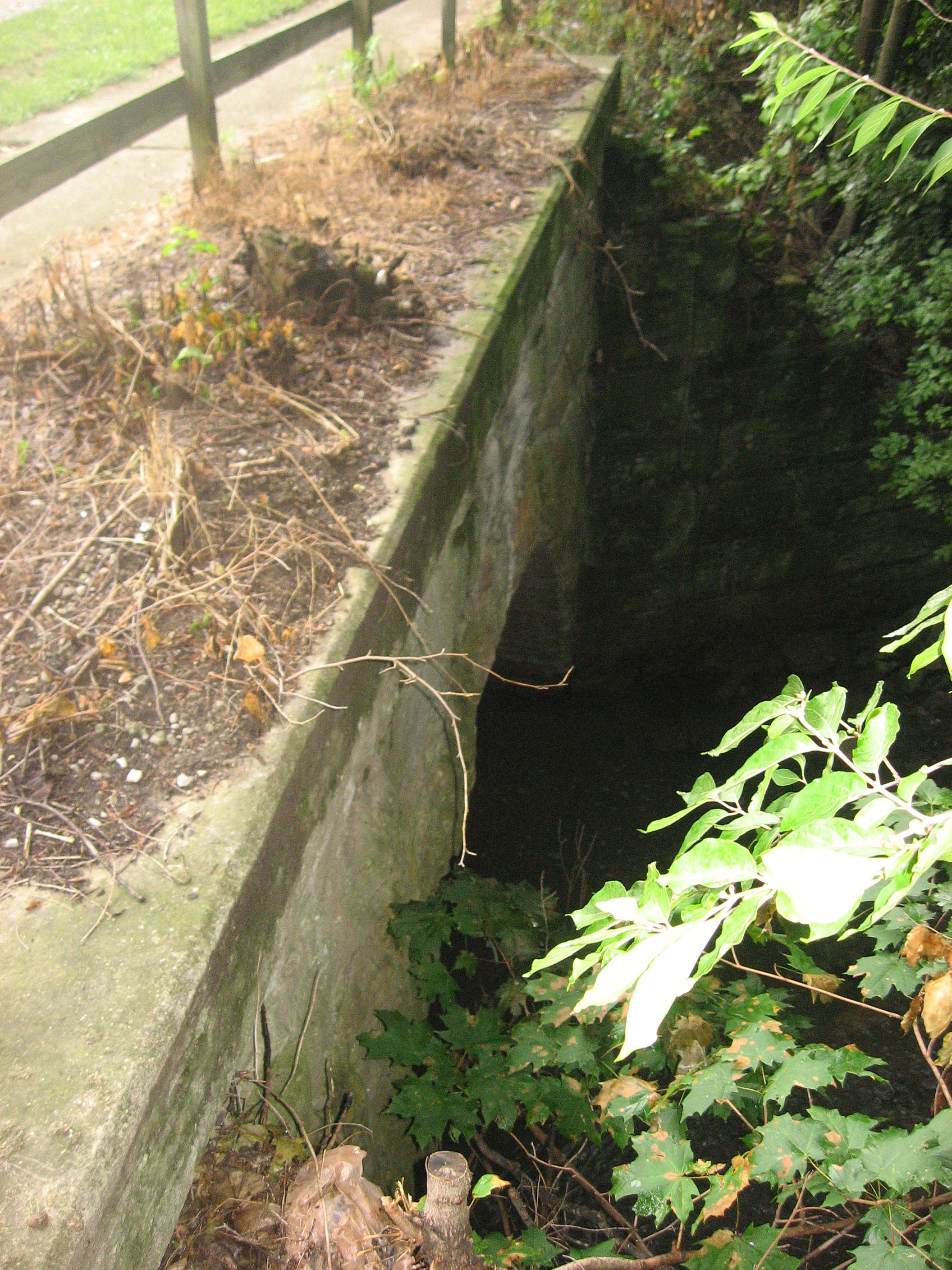 Eastern side of the Sixth Street Stone Arch Bridge, which carries Sixth Street over a small creek in Charleston, Illinois, United States. Built in 1895, it is listed on the National Register of Historic Places.